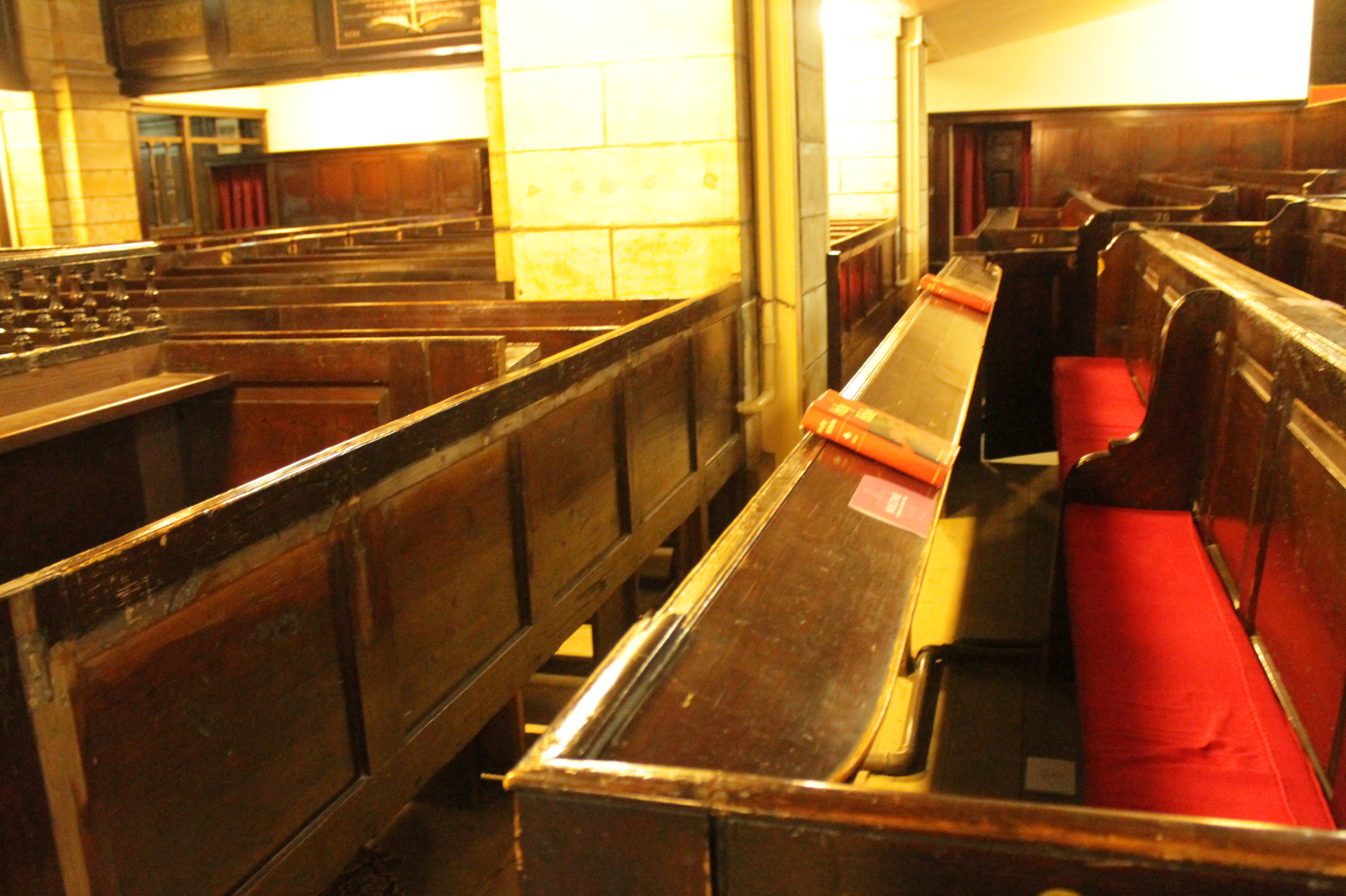 Original pews in the Kirk of St Nicholas in Aberdeen